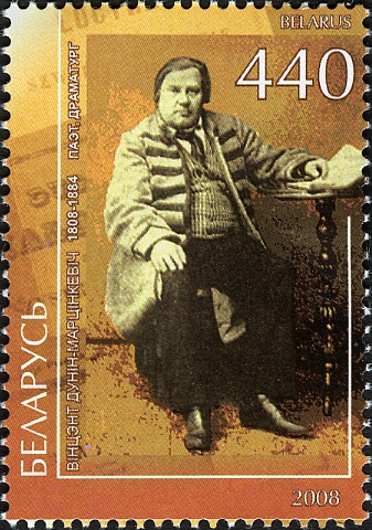 Stamp of Belarus